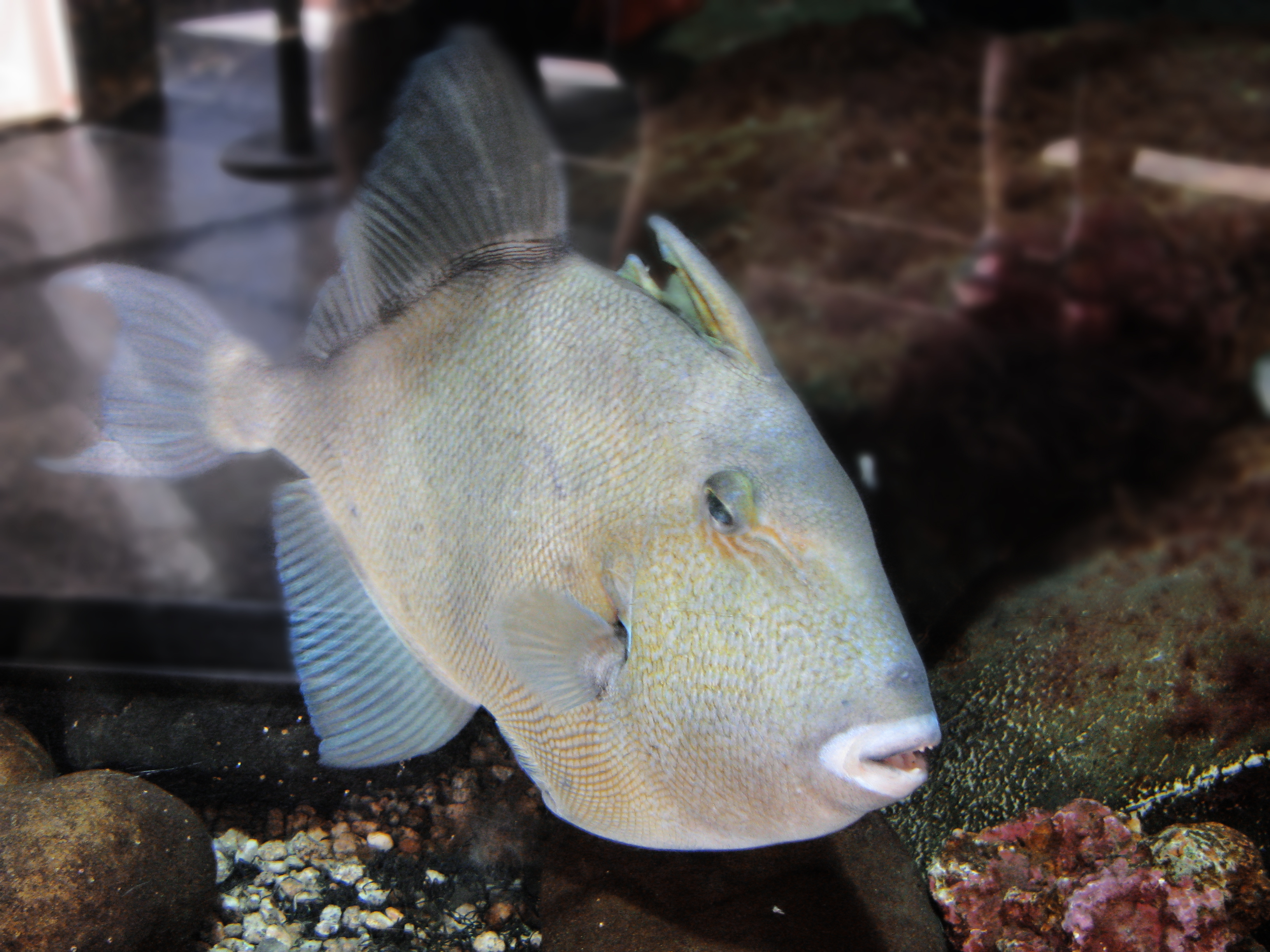 Balistes polylepis - Finescale triggerfish Location: Ty Warner Sea Center, Santa Barbara, CA